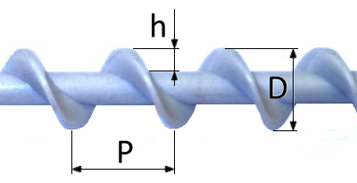 Worm screw with drawed dimension masrkers P = pitch, h = depth, D = outer diameter